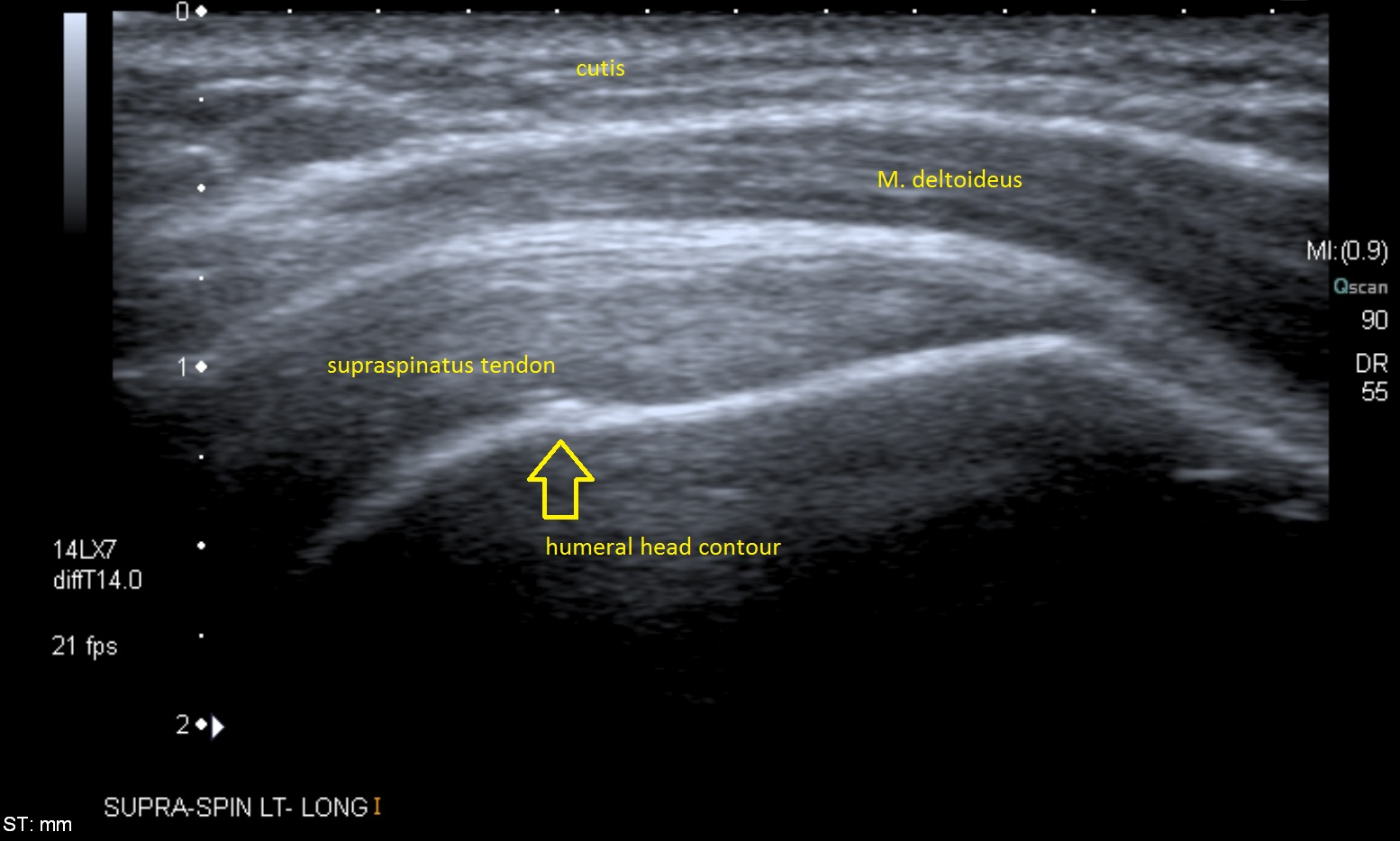 Longitudinal ultra sonography of the supraspinatus tendon